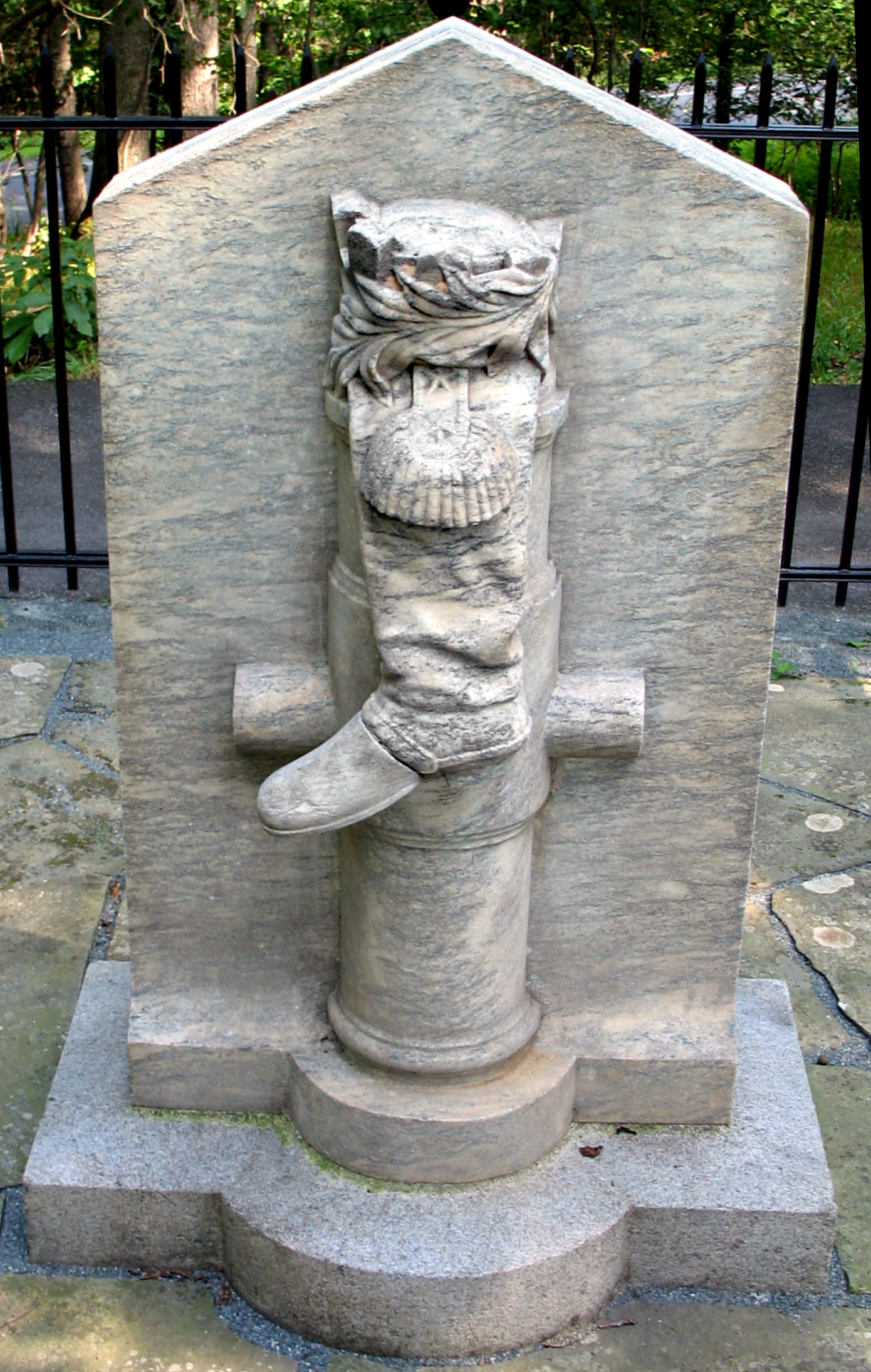 Boot Monument at Saratoga National Battlefield commemorating the wounded foot of Benedict Arnold. Photo by poster in August 2006.